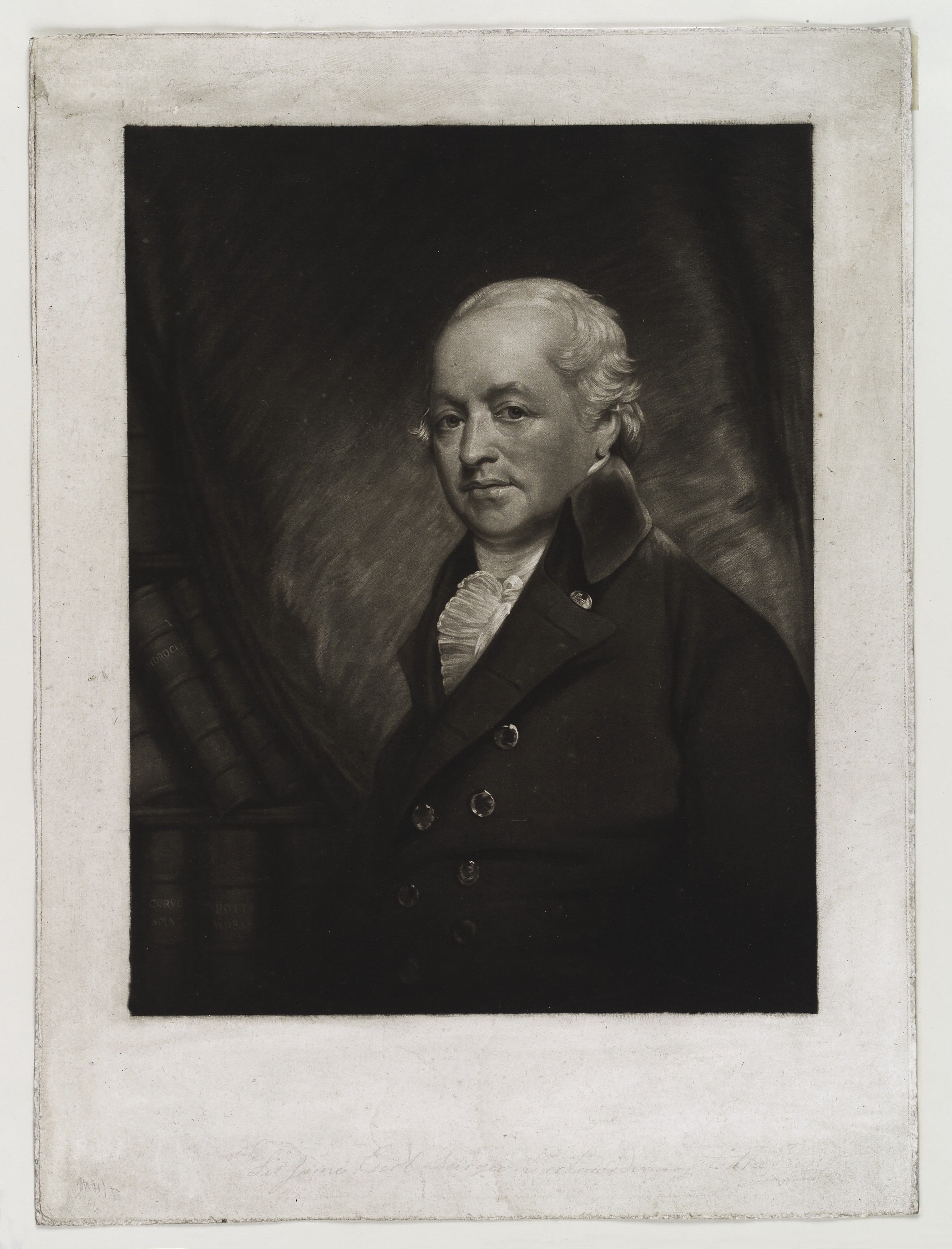 Surgeon at St. Bartholomew's Hospital, London, particularly known for the operation for bladder-stone. Pupil of Percival Pott, whose daughter he married and whose literary works he later published. In the background, a library of large volumes, of which three are lettered "Hydrocele", "Curv'd spine", and "Potts works". Iconographic Collections Keywords: Robert Dunkarton; Surgeon; James Earle; John Opie